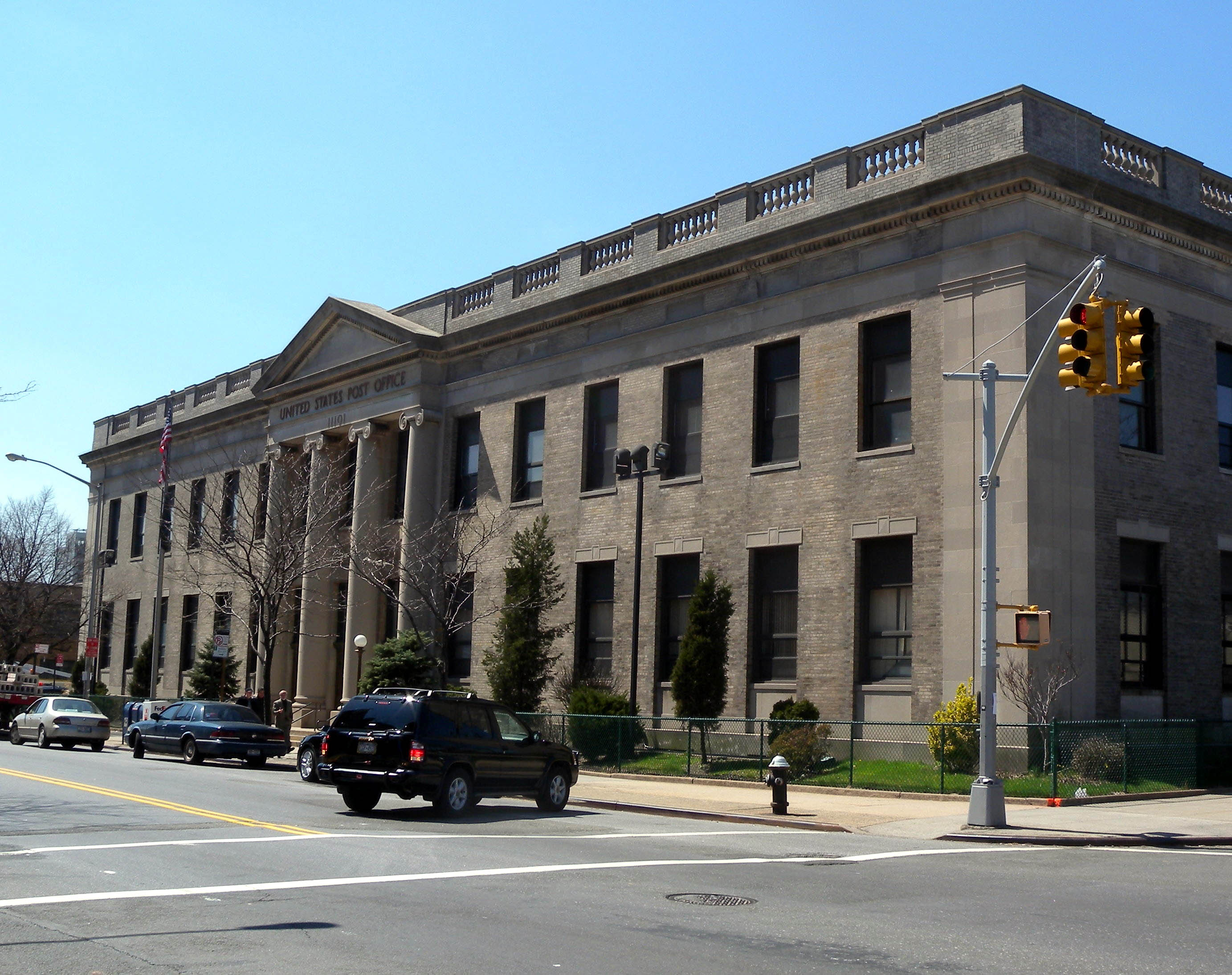 Looking southwest at Long Island City Post Office on a sunny midday. ZIP 11101.